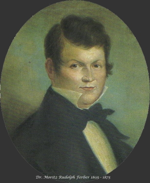 Portrait of Dr. Moritz Rudolph Ferber (1805-1875), an amateur mineralogist from Gera, Germany, after whom ferberite is named.